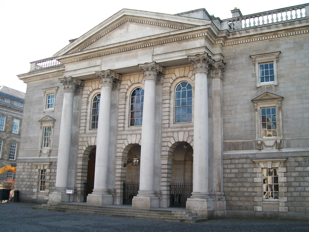 The Examinations Hall at Trinity College, Dublin This fine classical building was designed in the early 18thC by Sir William Chambers. It faces - across Parliament Square - the college chapel designed by the same architect. The Examinations Hall is also known as the Public Theatre and it possess a fine 17thC organ.